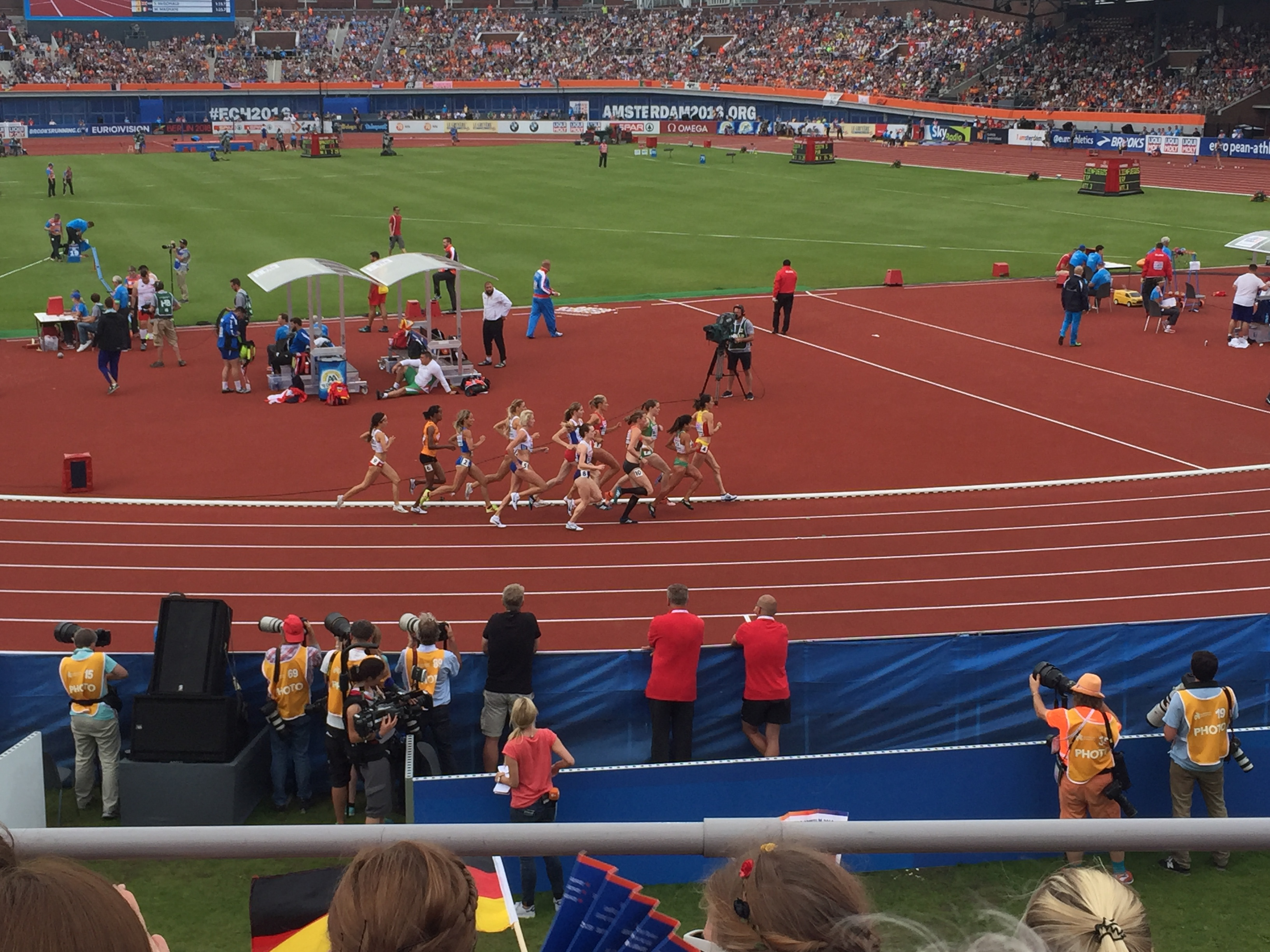 European Athletic Championships 2016 in Amsterdam - 10 July 2016 European Championships in Athletics (10 August) Schedule for this day: Finals: 17:00 High Jump M 17:05 400m Hurdles W 17:10 Hammer Throw M 17:15 3000m Steeplechase W 17:25 Triple Jump W 17:30 Shot Put M 17:35 4 x 100m W 17:45 1500m W 17:55 4 x 100m M 18:10 5000m M 18:30 800m M 18:40 4 x 400m W 18:50 4 x 400m M